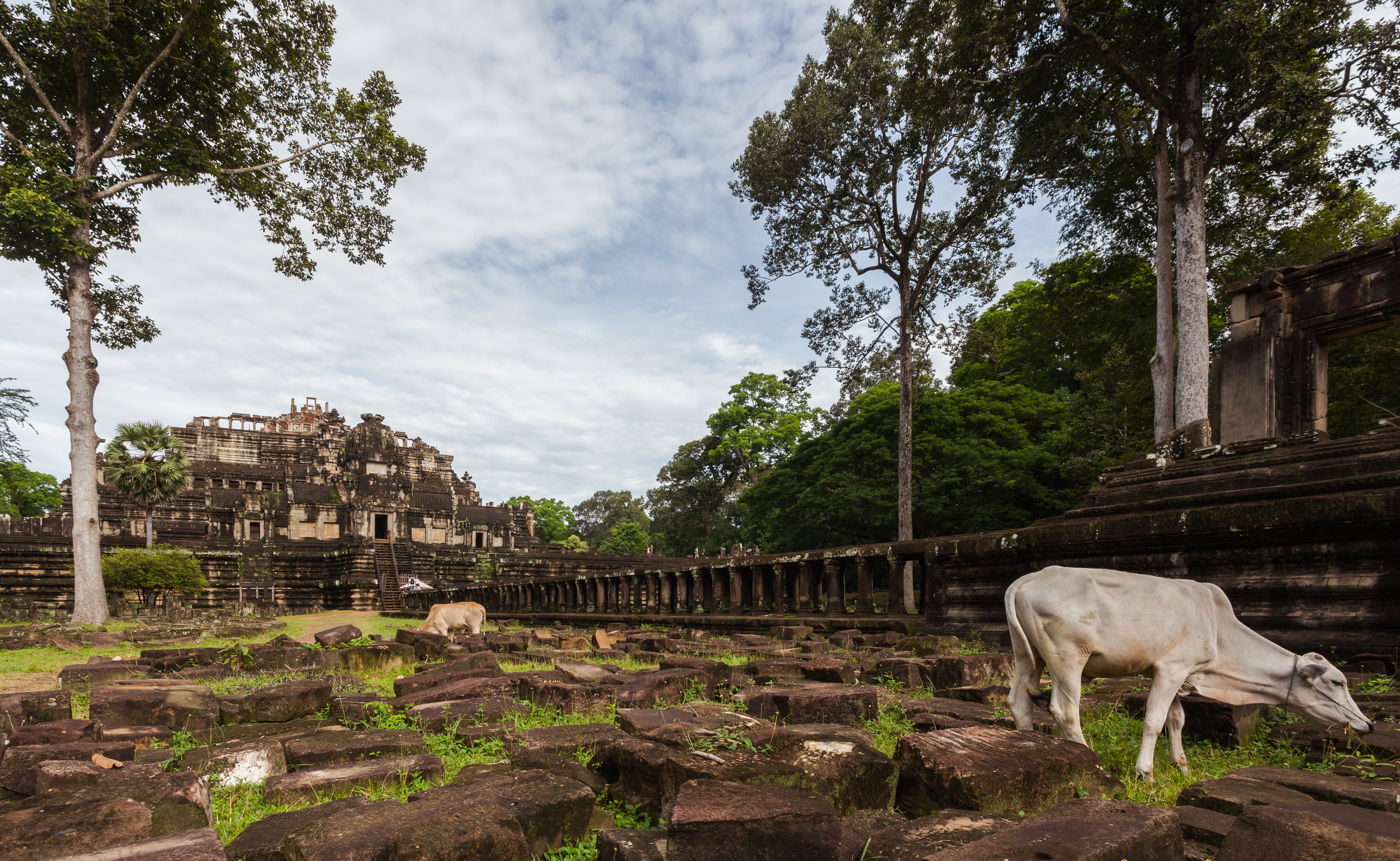 Baphuon, Angkor Thom, Cambodia